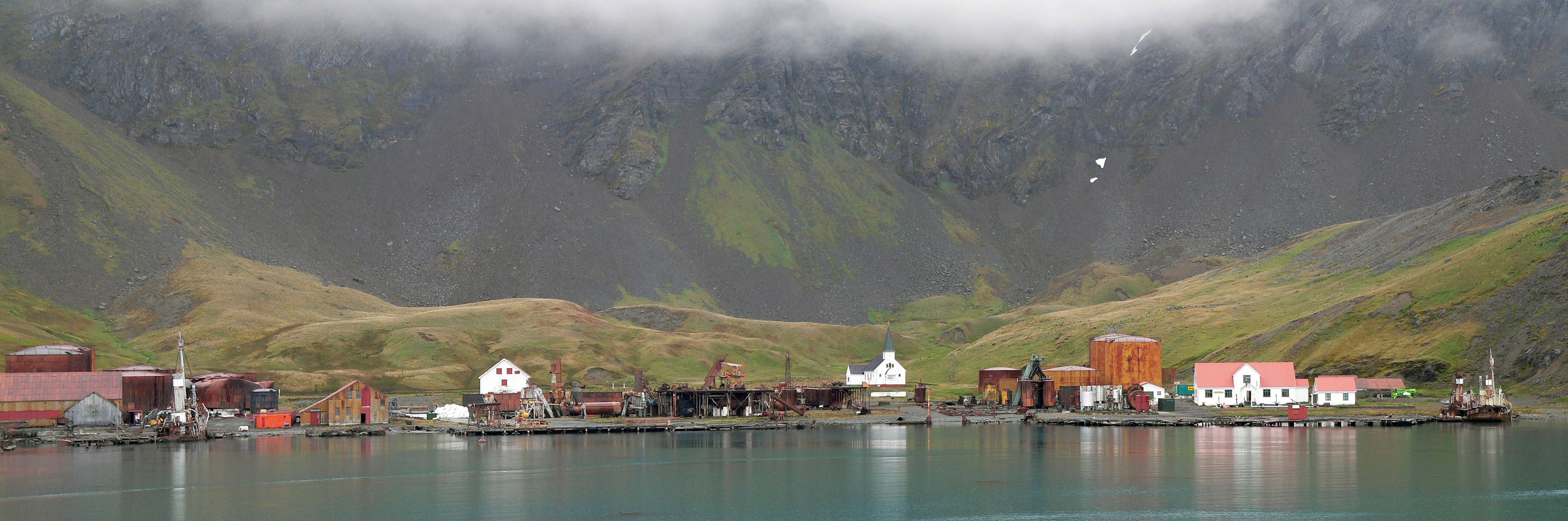 Panorama of Grytviken